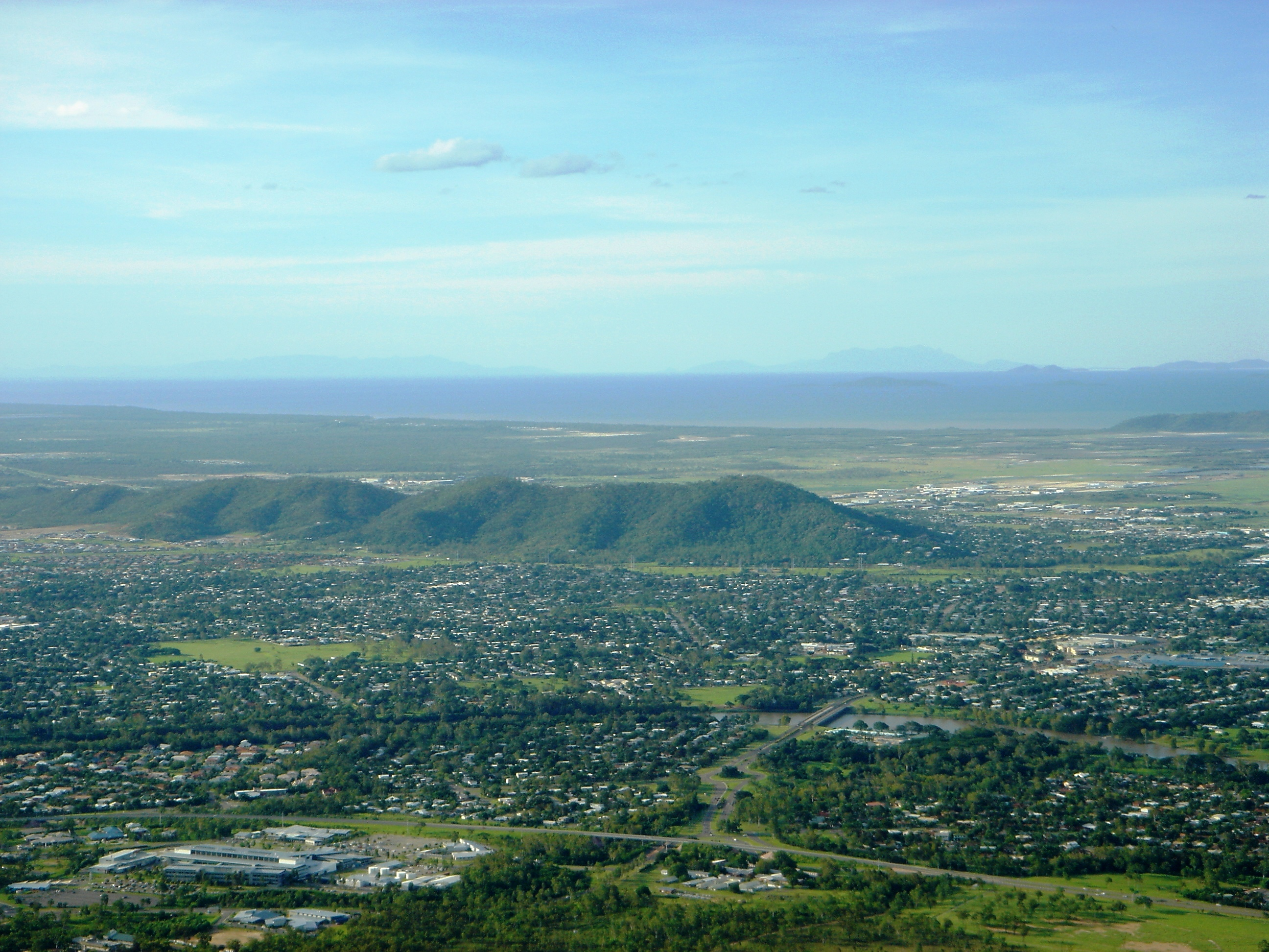 Panorama of Mount Louisa, Townsville.